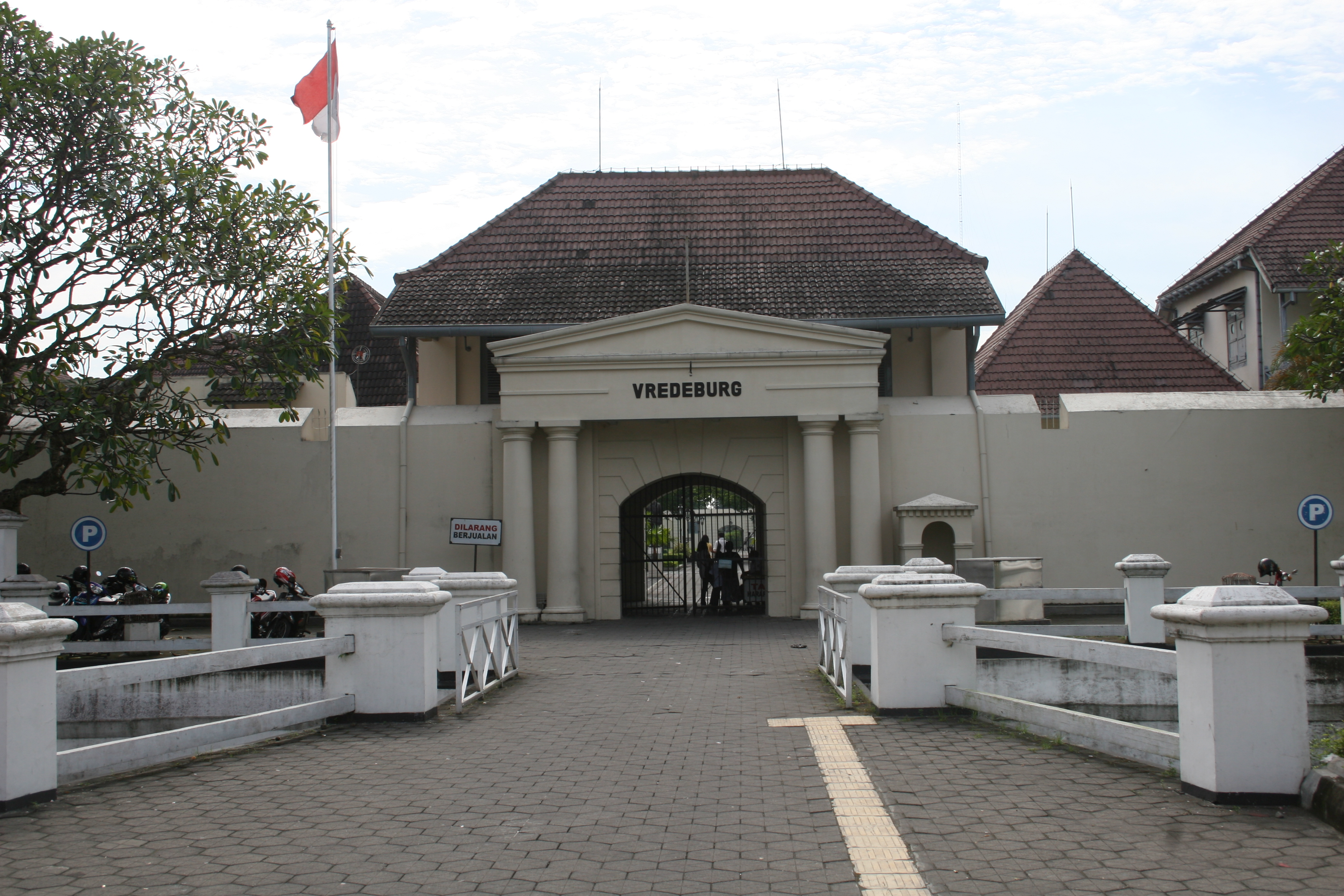 Fort Vredeburg museum (exterior) at Malioboro Yogyakarta, Indonesia